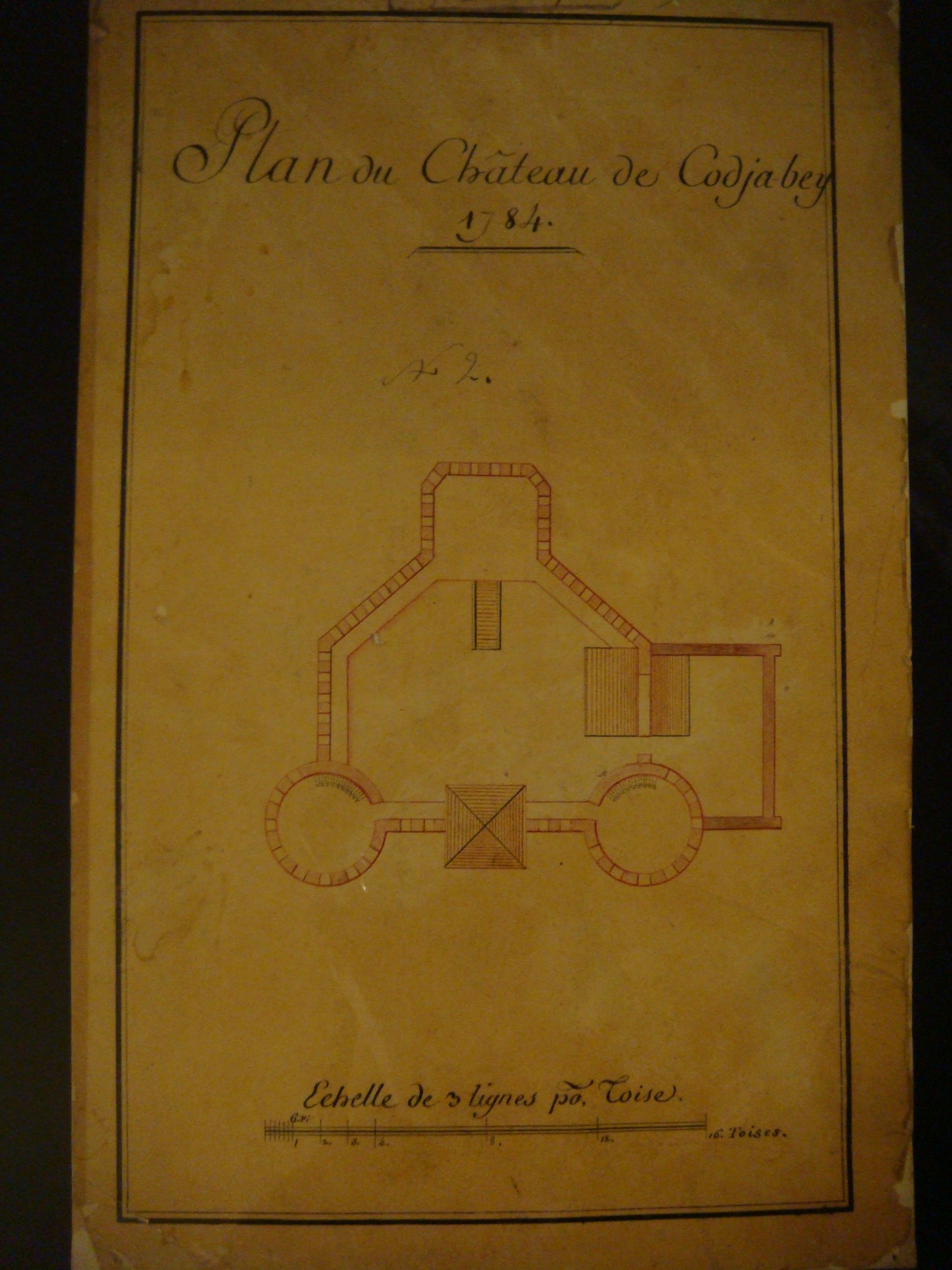 Plan of Cadjabey fortress in 1784